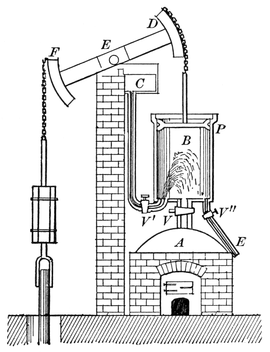 Atmospheric Steam Engine. The Steam was generated in the boiler A. The piston P moved in a cylinder B. When the valve V was opened, the steam pushed up the piston. At the top of the stroke, the valve was closed, the valve V' was opened, and a jet of cold water from the tank C was injected into the cylinder, thus condensing the steam and reducing the pressure under the piston. The atmospheric pressure above then pushed the piston down again.